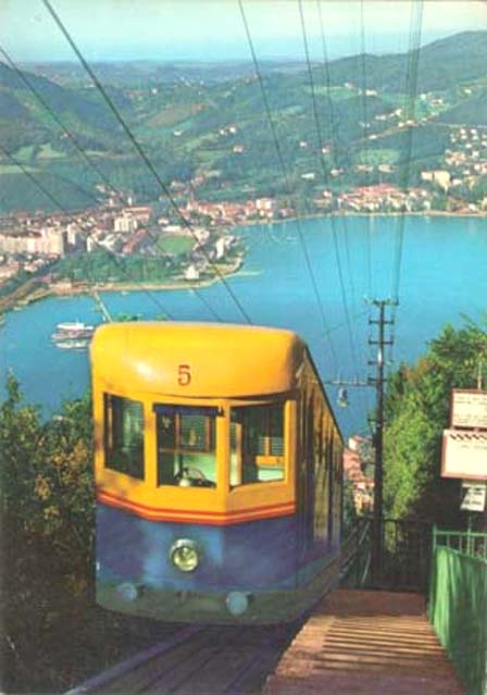 Como-Brunate funicolar - Panorama